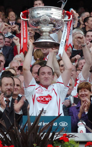 Brian Dooher lifting the Sam Maguire in 2005, having won the All-Ireland Senior Football Championship.